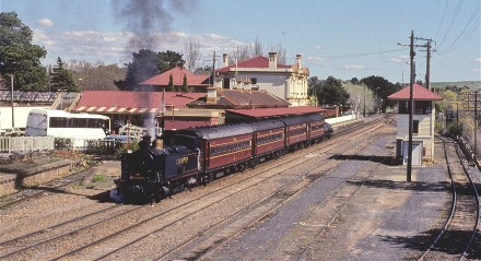 SMR 18 (Bob) hauls the Cockatoo Run away from Moss Vale on 30 September, 1997